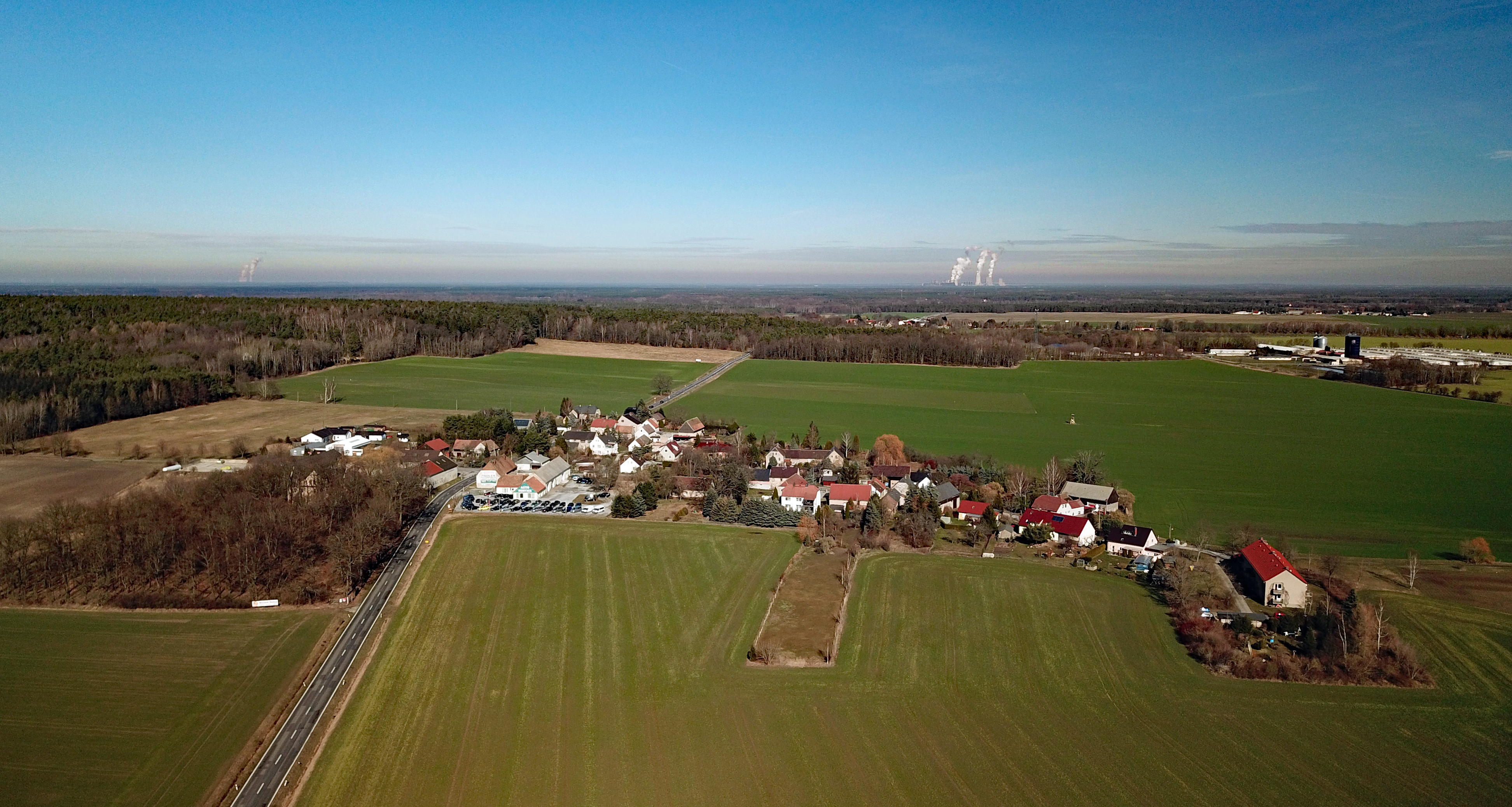 Zschillichau, Großdubrau, Saxony, Germany Hornjoserbsce: Powětrowy wobraz Čelchowa